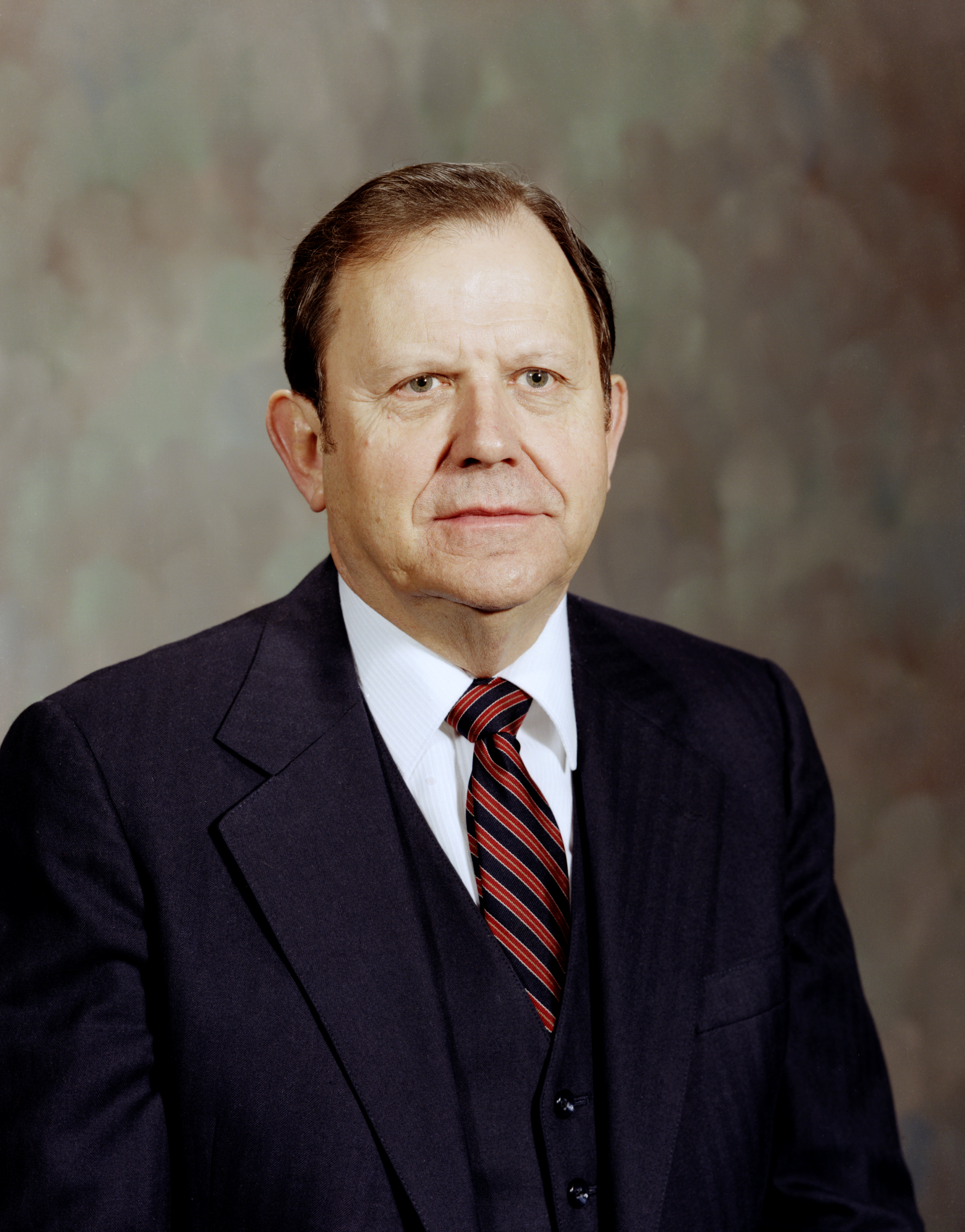 Official NASA portrait of former MSFC director William R. Lucas. Originally posted at